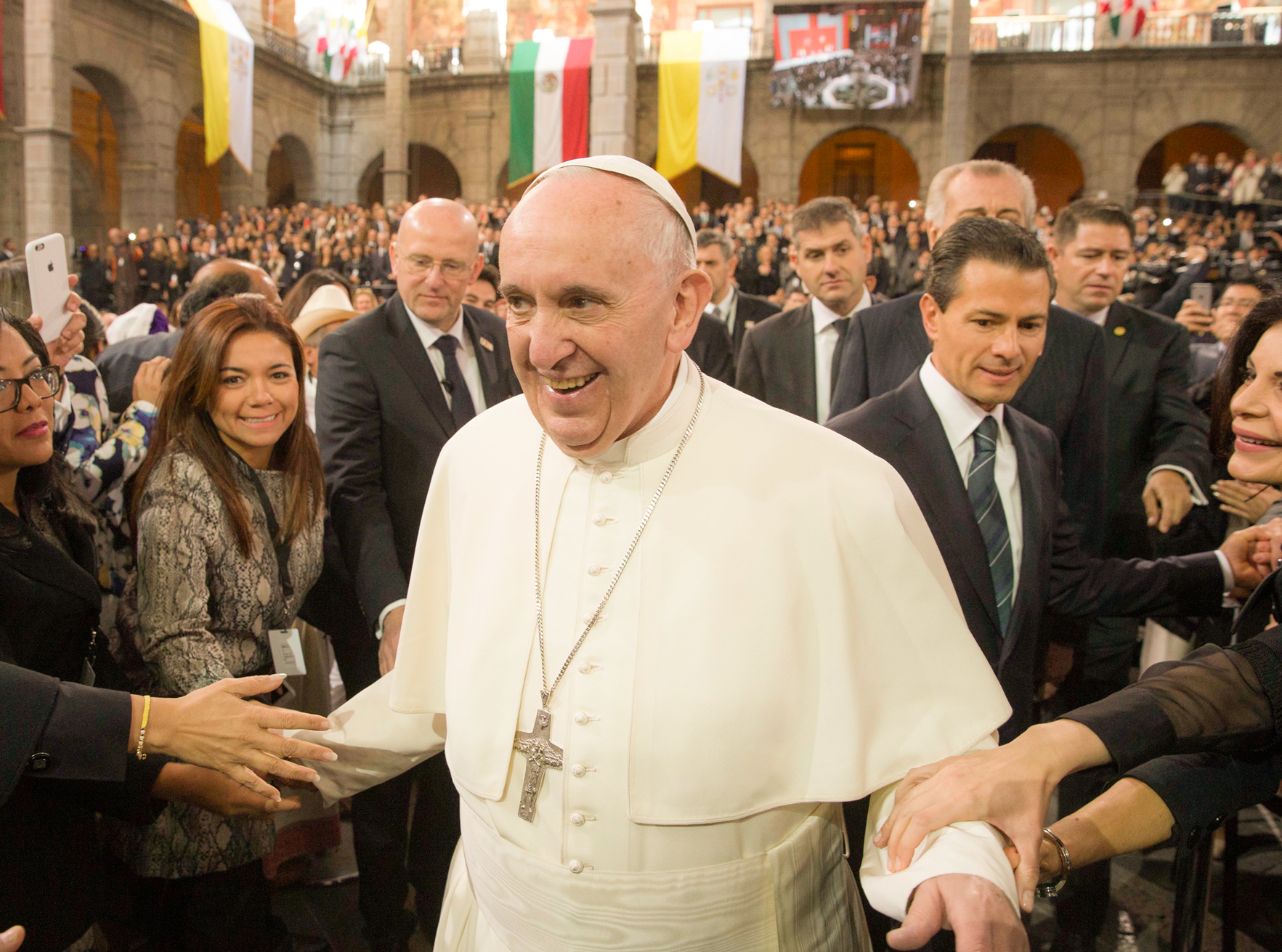 Reconocemos en el Papa Francisco a un líder sensible y visionario, que está acercando una institución milenaria, a las nuevas generaciones. 13 de Febrero del 2016